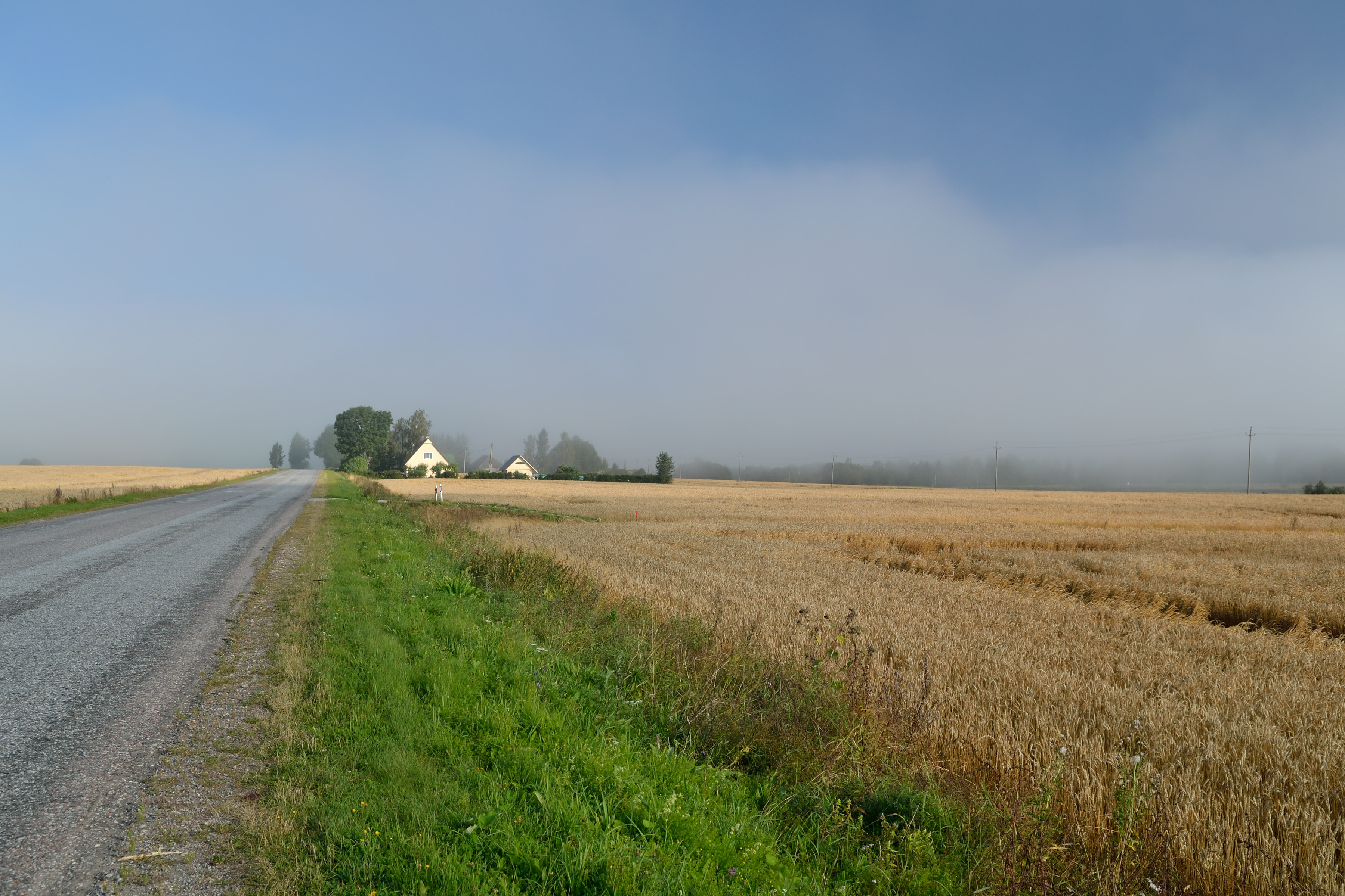 Assamalla–Kadrina road in Võduvere village (Estonia)